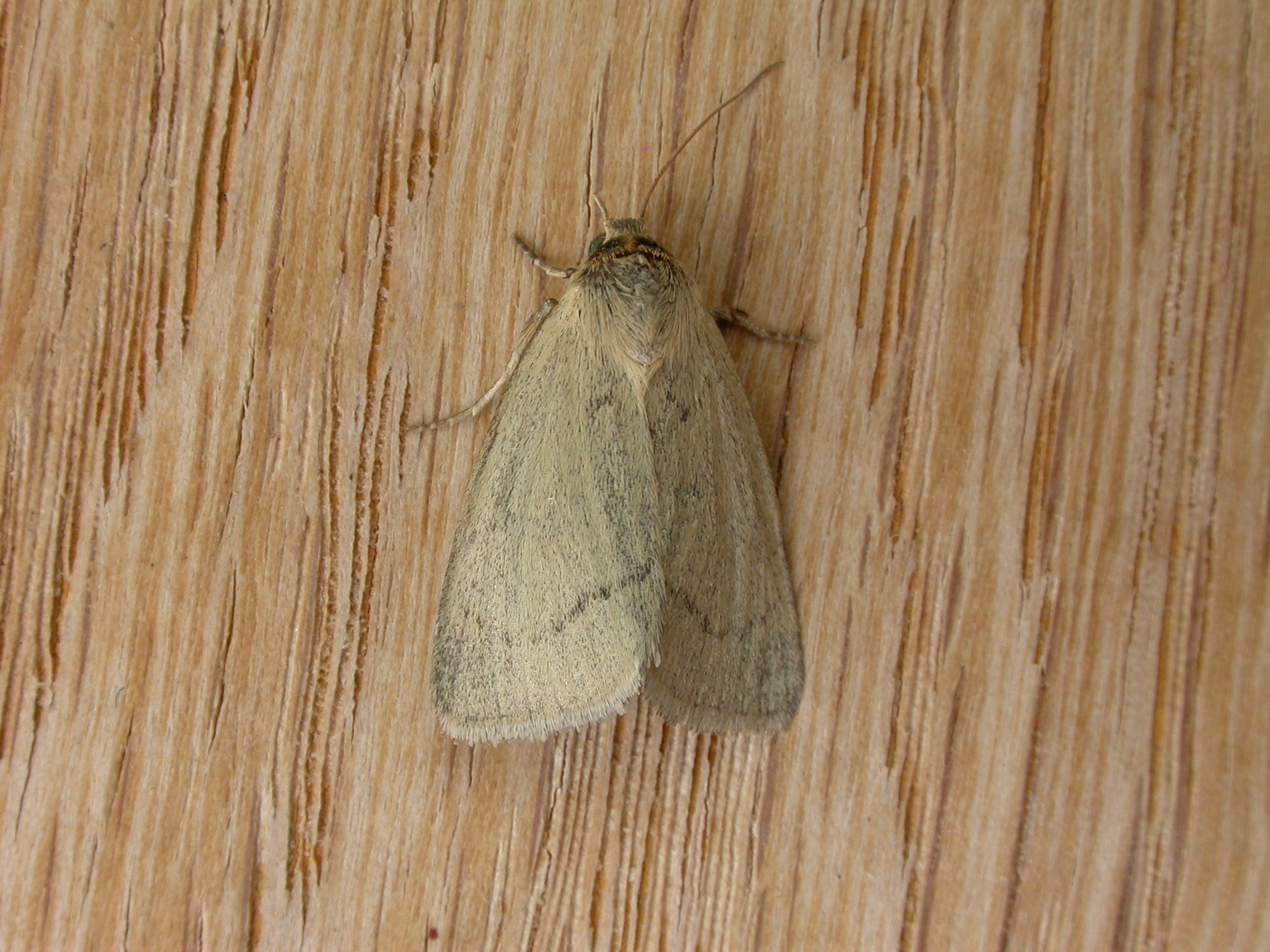 Heliocheilus sp., probably either H. moribunda (Guenée, 1852) or H. aberrans (Butler, 1886), to MV light, Aranda ACT, 17/18 December 2010